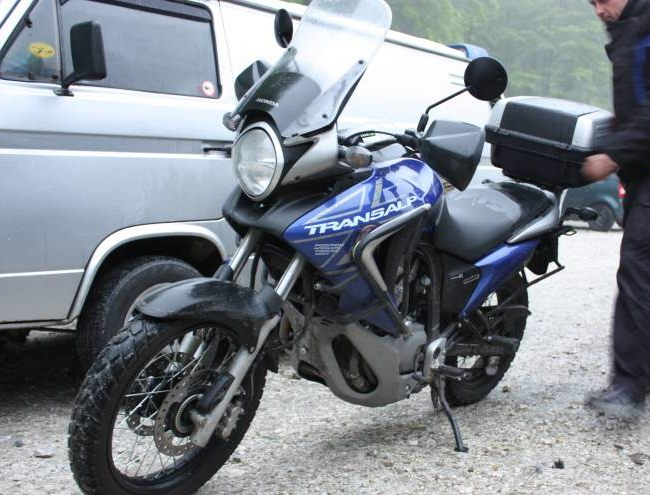 Honda XL700V Transalp 2008